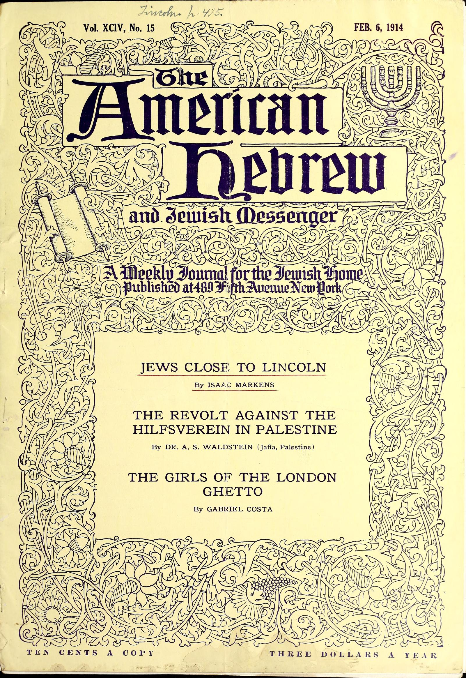 February 6, 1914 cover of The American Hebrew and Jewish Messenger